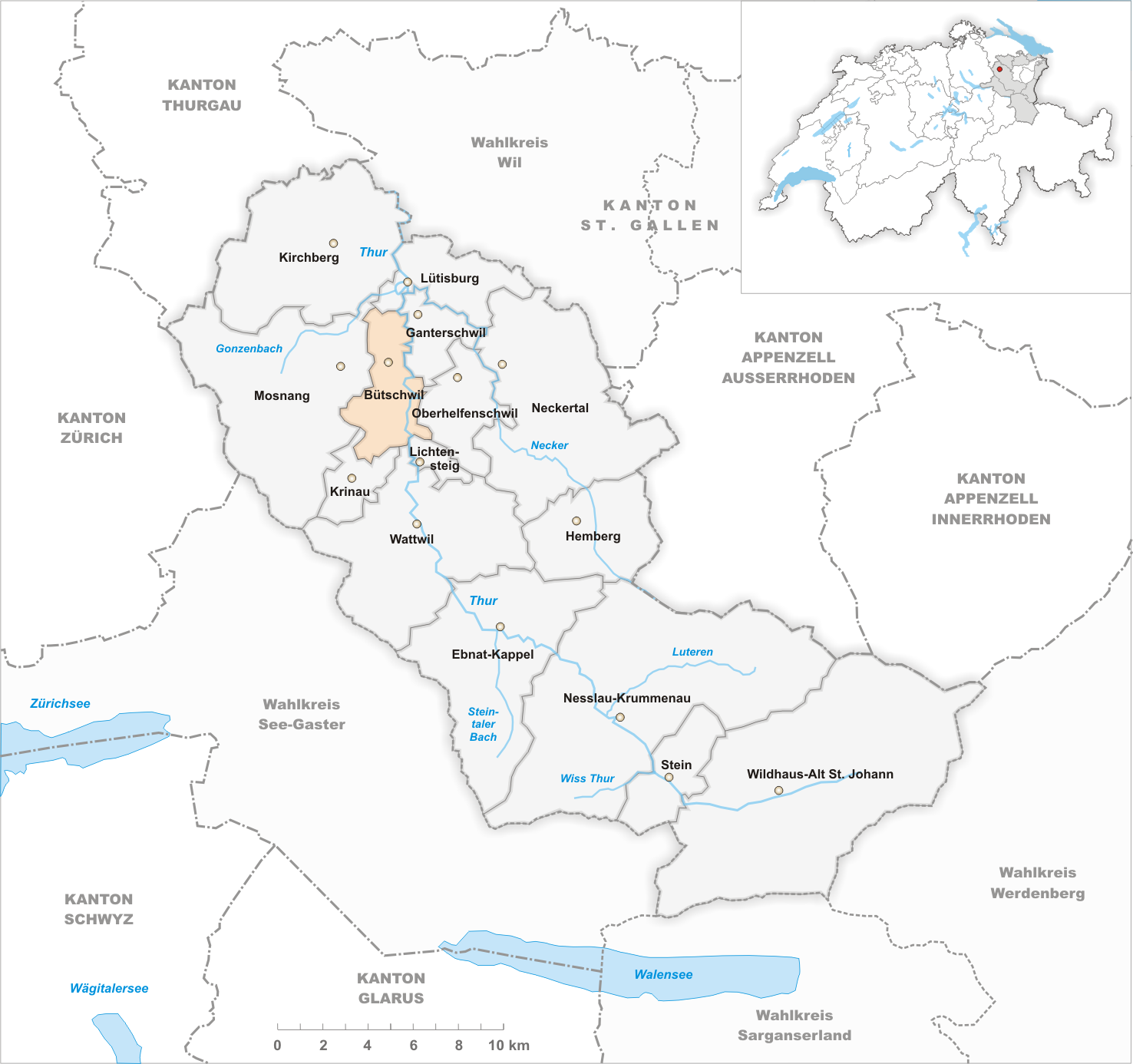 Municipality Bütschwil